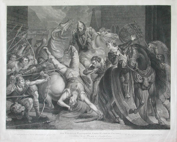 Sir William Walworth, Lord Mayor of London, Killing Wat Tyler in Smithfield, 1381, engraving of history painting.